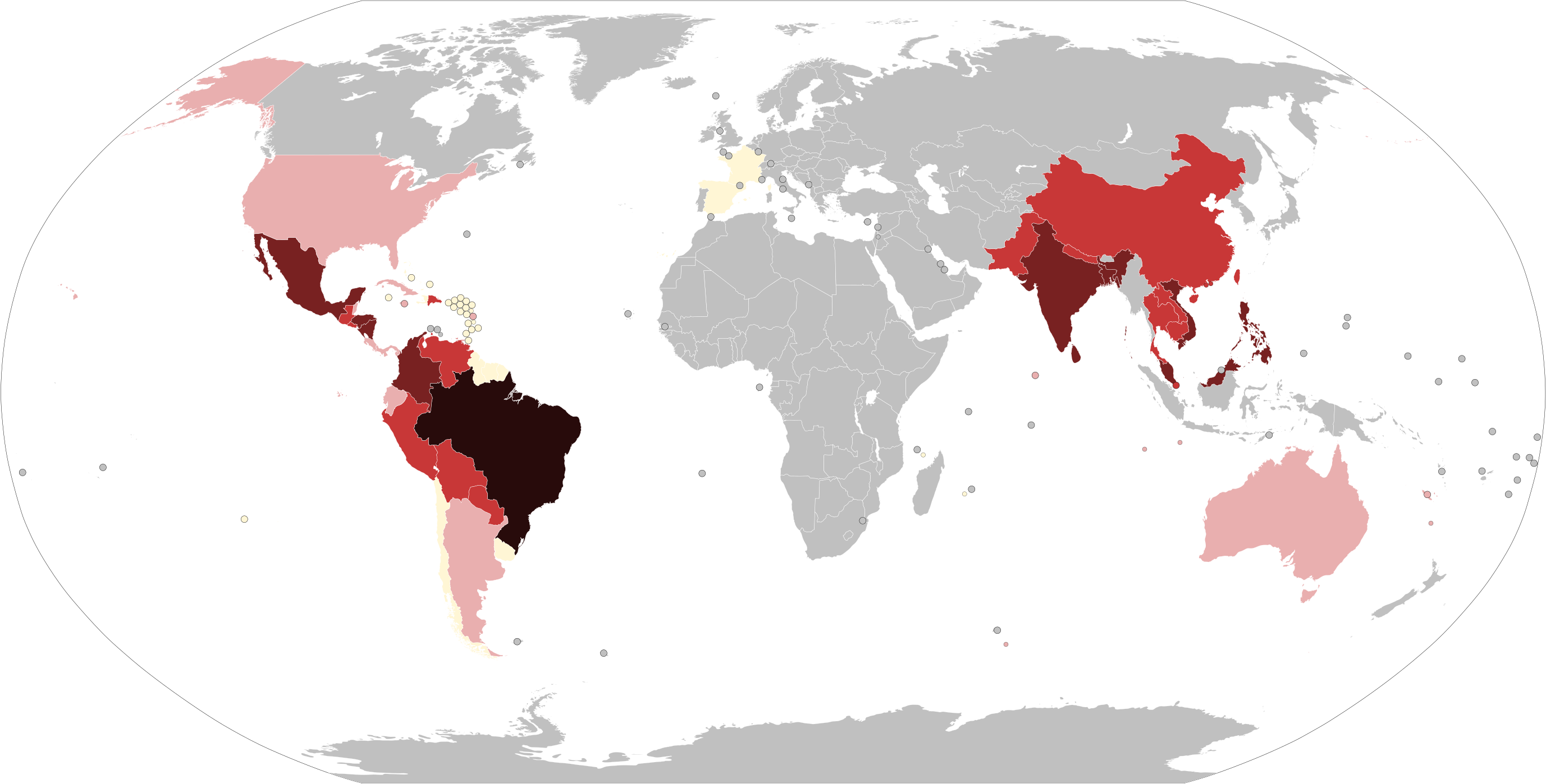 2019-2020 dengue fever epidemic 1,000,000+ Confirmed cases 100,000–999,999 Confirmed cases 10,000–99,999 Confirmed cases 1000–9999 Confirmed cases 1–999 Confirmed cases No cases or not data